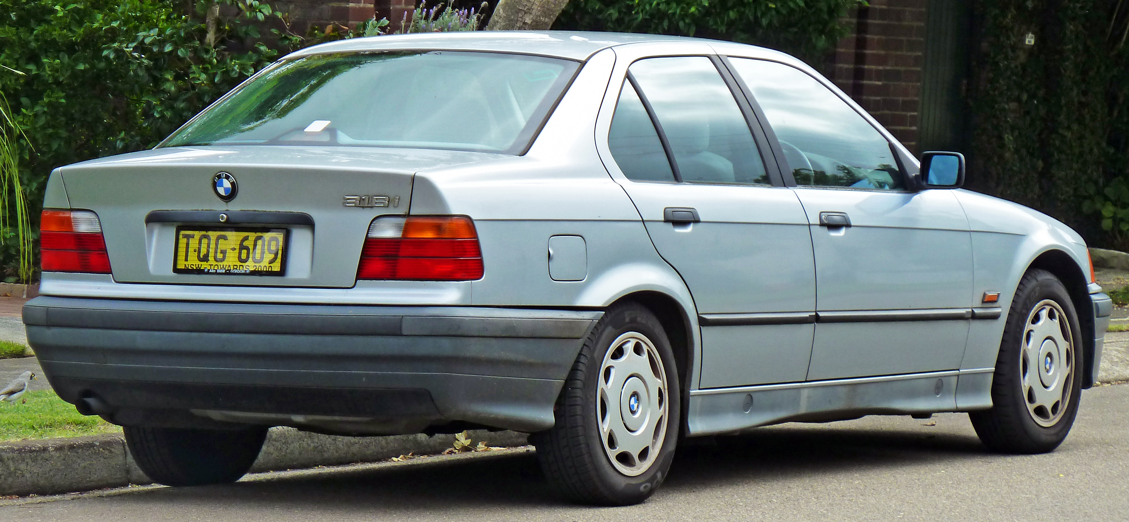 1995 BMW 318i (E36) sedan. Photographed in Killara, New South Wales, Australia.